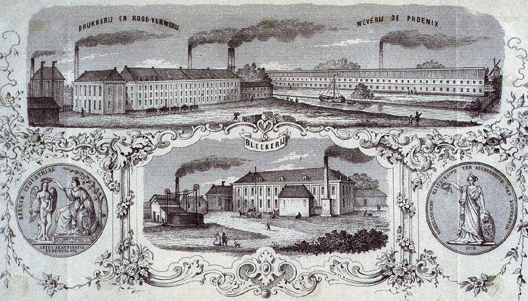 Picture of 3 cotton mills of Haarlem, 19th century. The upper two are positioned across from each other in the engraving, but were on different sides of town from each other. Upper left: Mill "Drukkerij en rood-verwerij" located on Kinderhuissingel/Garenkokerskade. Upper right: Mill "Weverij de Phoenix" located on the Phoenixstraat. Middle: Bleaching mill: "Bleekerij" located on the Kinderhuissingel. On either side of this building (originally owned by Thomas Wilson) two sides of a commemorative coin "Prijspenning" - on the left the text "Belgar Industriae Artes Remuneratae ex Decreto Reg" and on the right the text "Nederlandsche Maatschappij ter bevordering van Nijverheid 1778", which is the club in Haarlem which issued the coin. It was started in 1778 as Maatschappij ter bevordering van Nijverheid, and under the same name but with the "Nederlandsche" prefix, continued to award industrial prizes after 1825 (the Belgian secession).